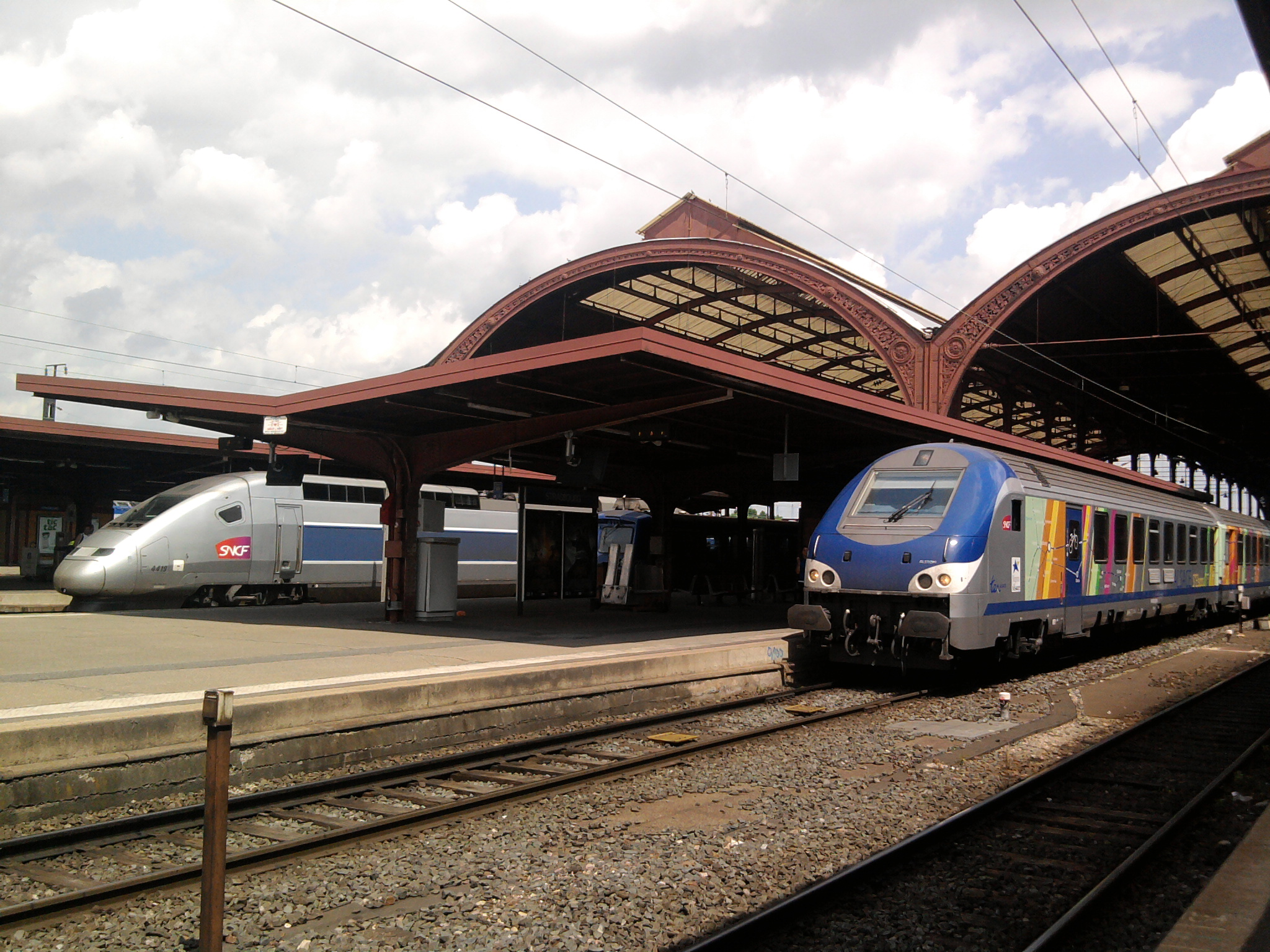 A TGV and a french regional train in Strasbourg main railway station